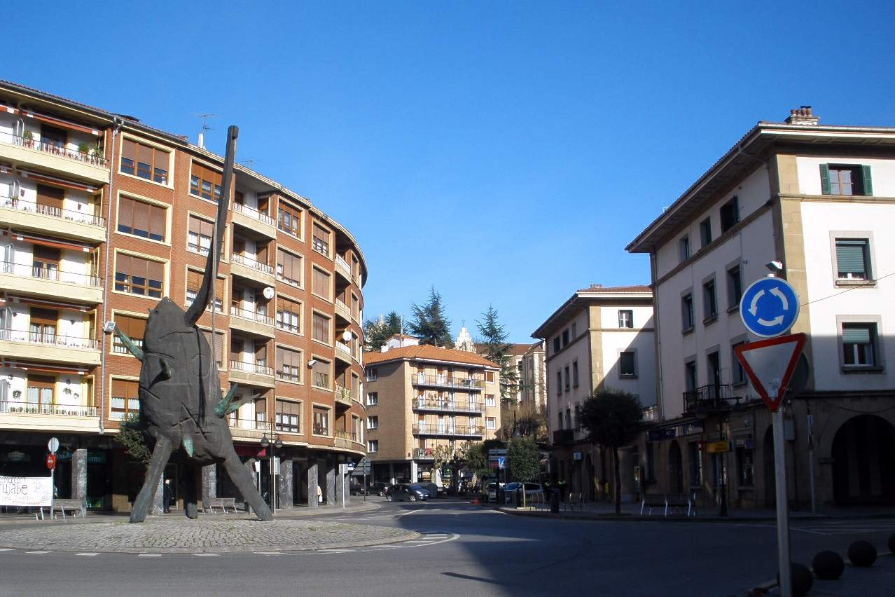 Glorieta central de Amorebieta-Etxano (Vizcaya)